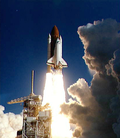 STS-42 Discovery, Orbiter Vehicle (OV) 103, lifts off from a Kennedy Space Center (KSC) Launch Complex (LC) Pad at 9:52:33 am (Eastern Standard Time (EST)). OV-103, riding atop the external tank (ET) and flanked by two solid rocket boosters (SRBs), is clears the fixed service structure (FSS) tower. The retracted rotating service structure (RSS) appears in the foreground. An exhaust cloud fills the launch pad area.